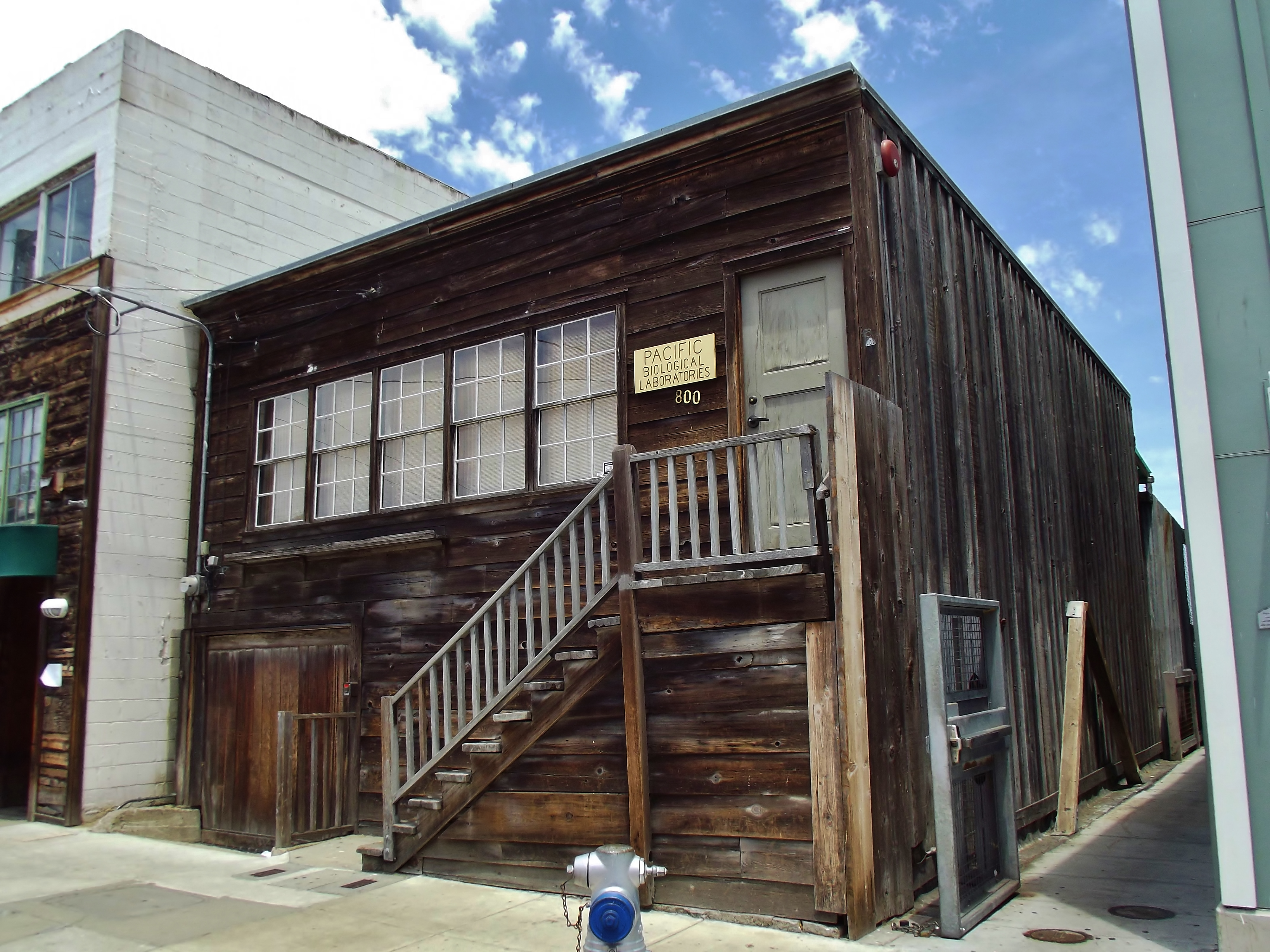 Ed Ricketts', Cannery Row lab and office.